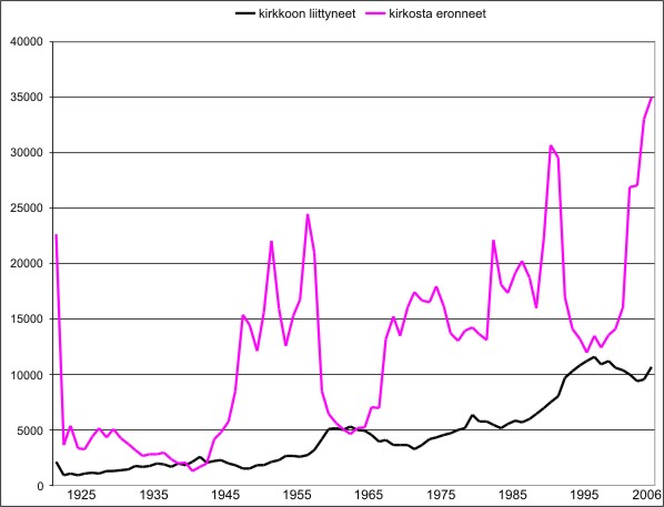 Number of people joining and leaving the Evangelical Lutheran Church of Finland. Born and deceased not included.